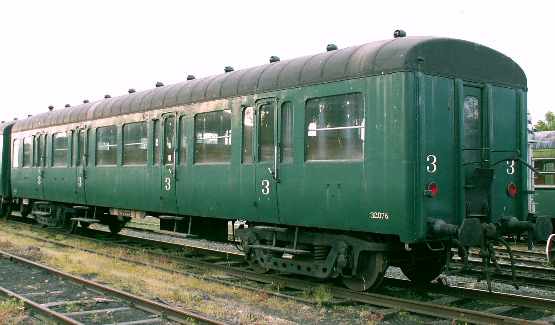 3rd class L Type rail car from the Belgian (SNCB) railways, as preserved by Heritage Railway CFV3V in Mariembourg (Belgium)